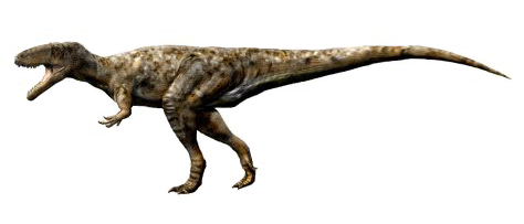 Duriavenator